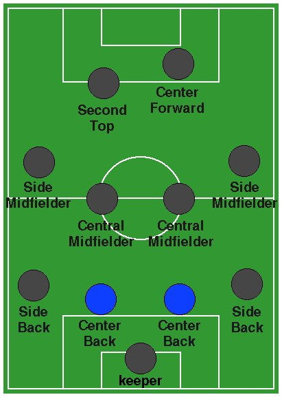 Position of CenterBack